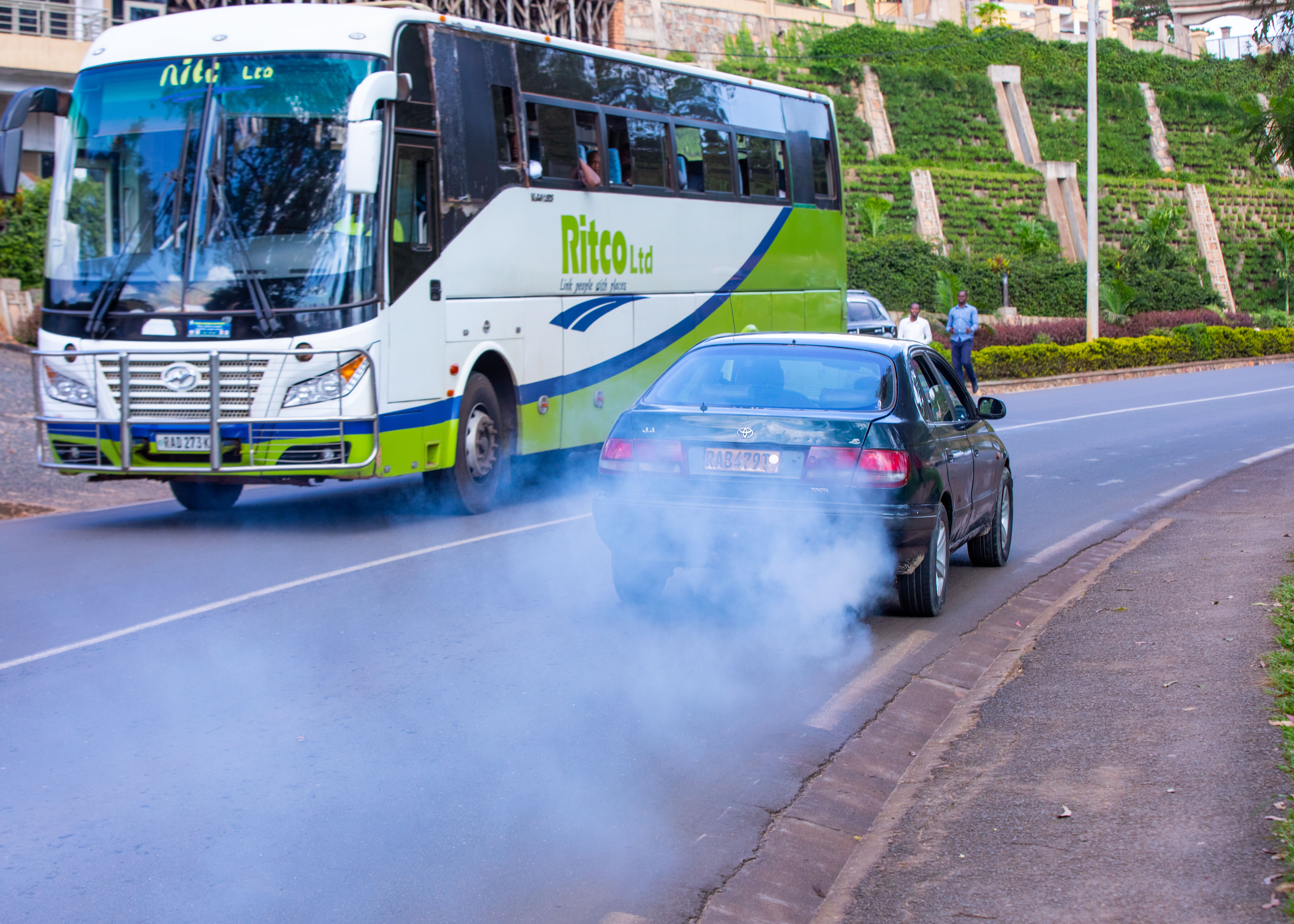 Black smoke emissions from a vehicle’s exhaust are a key contributing factor to air pollution and climate change in Kamonyi District road, Rwanda. Emmanuel Kwizera This is an image with the theme "Africa on the Move or Transport" from: Rwanda